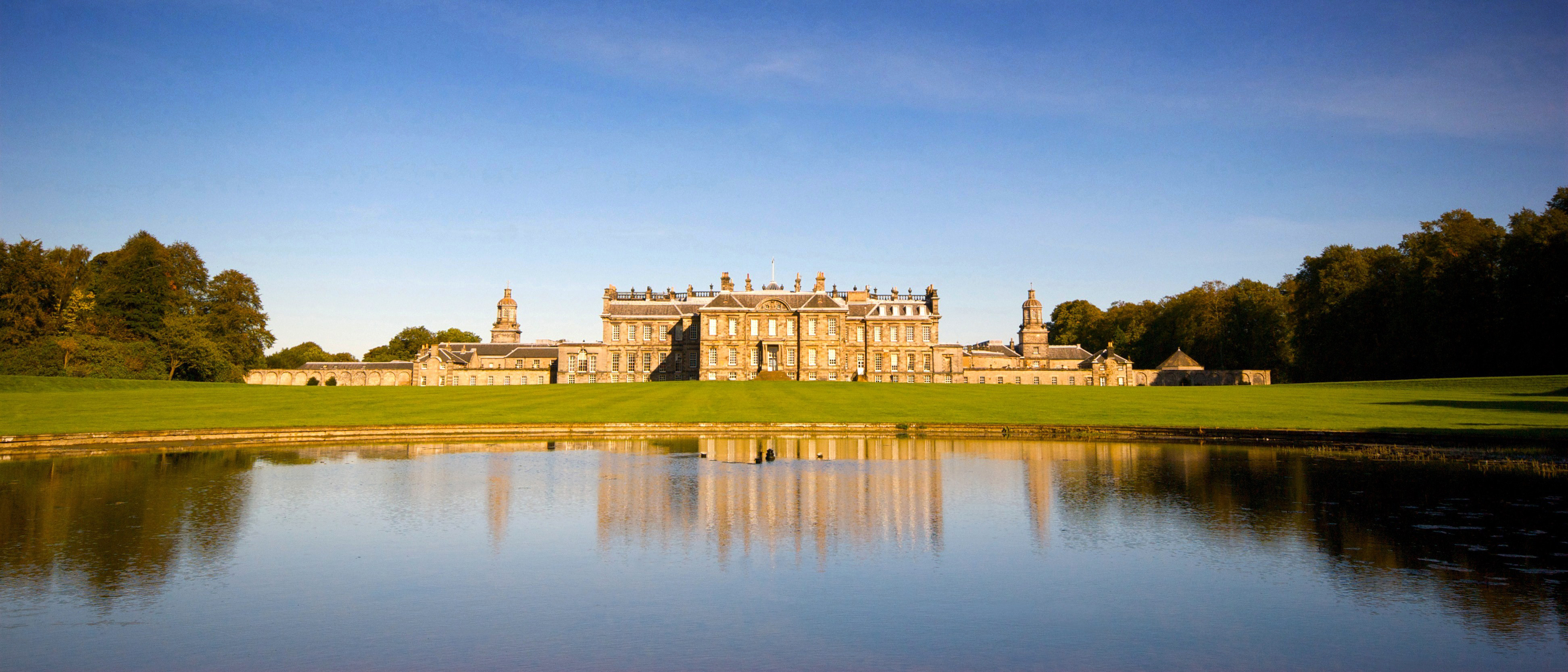 View of the rear of Hopetoun House, near Queensferry, Edinburgh.